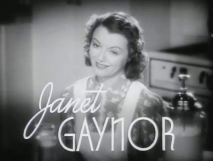 Janet Gaynor in Three Loves Has Nancy (1938) directed by Richard Thorpe.